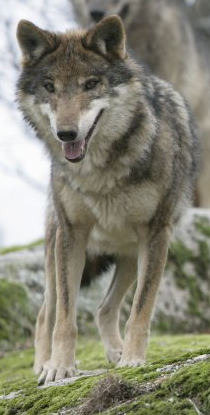 In the image we can clearly see the white stripes in the snouts and the black marks in the front legs, two of the characteristics of the sub. signatus